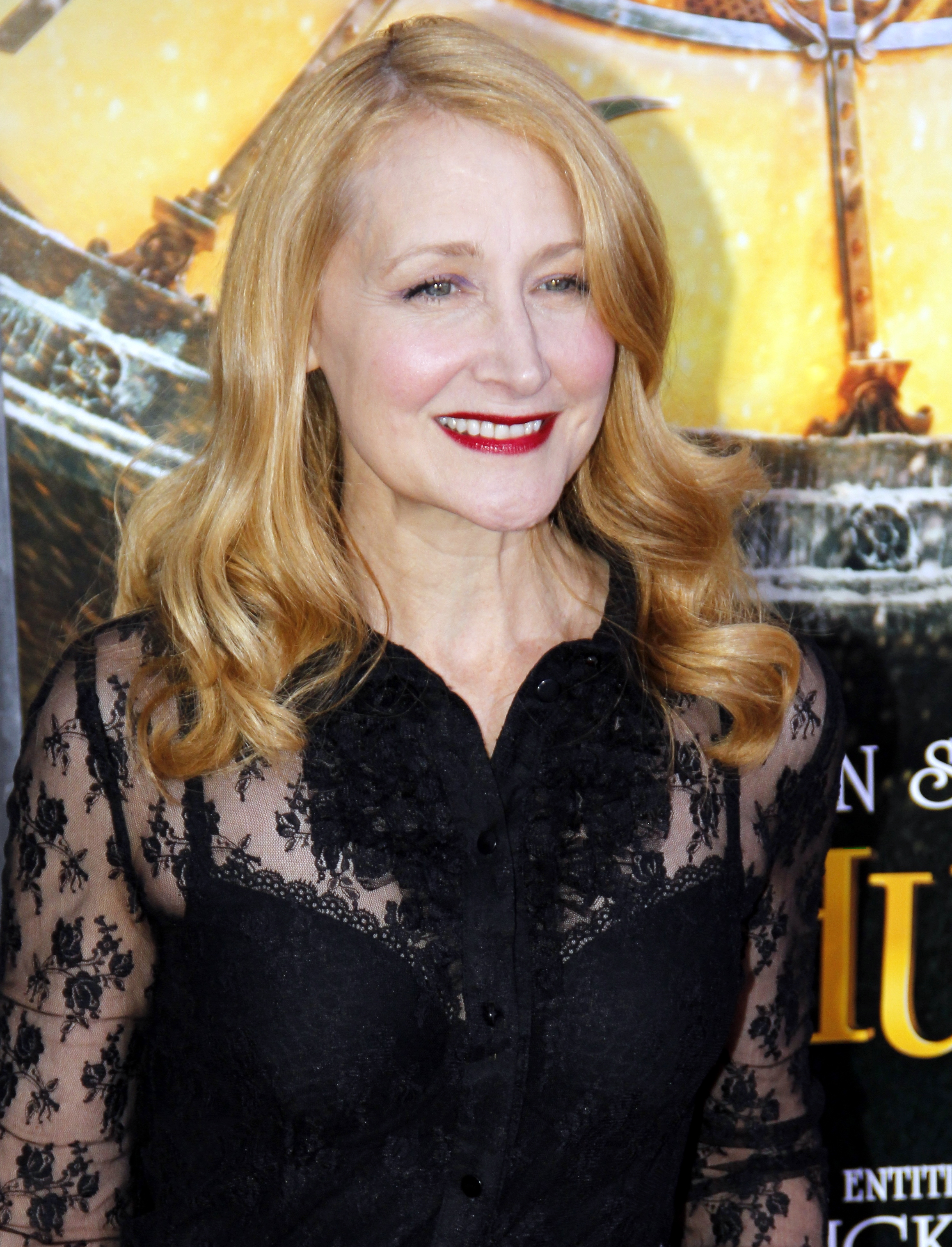 Patricia Clarkson at the Hugo Premiere, New York City 2011.